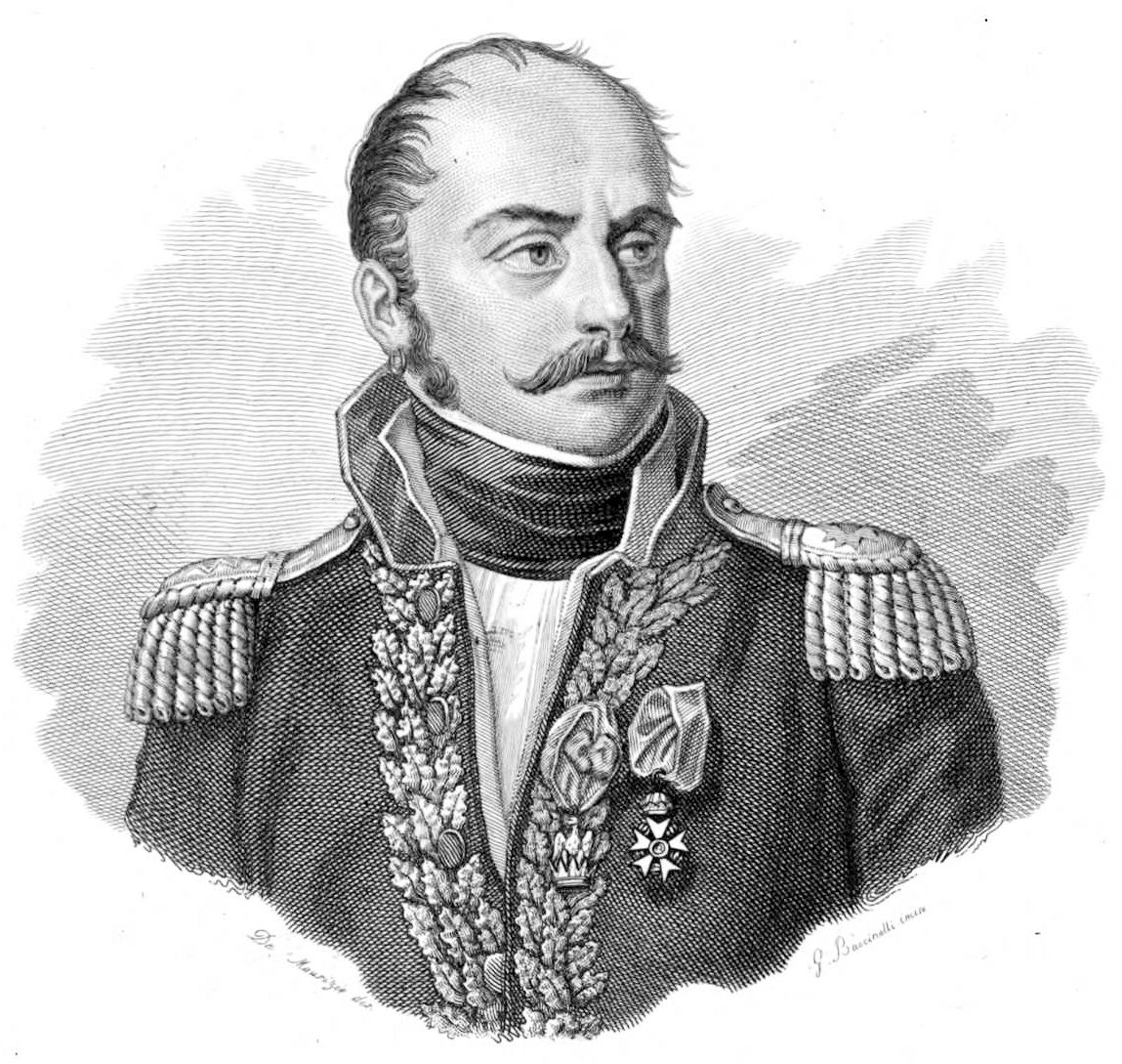 Pietro Teulié, divisional general, Minister of War of the Cisalpine Republic.